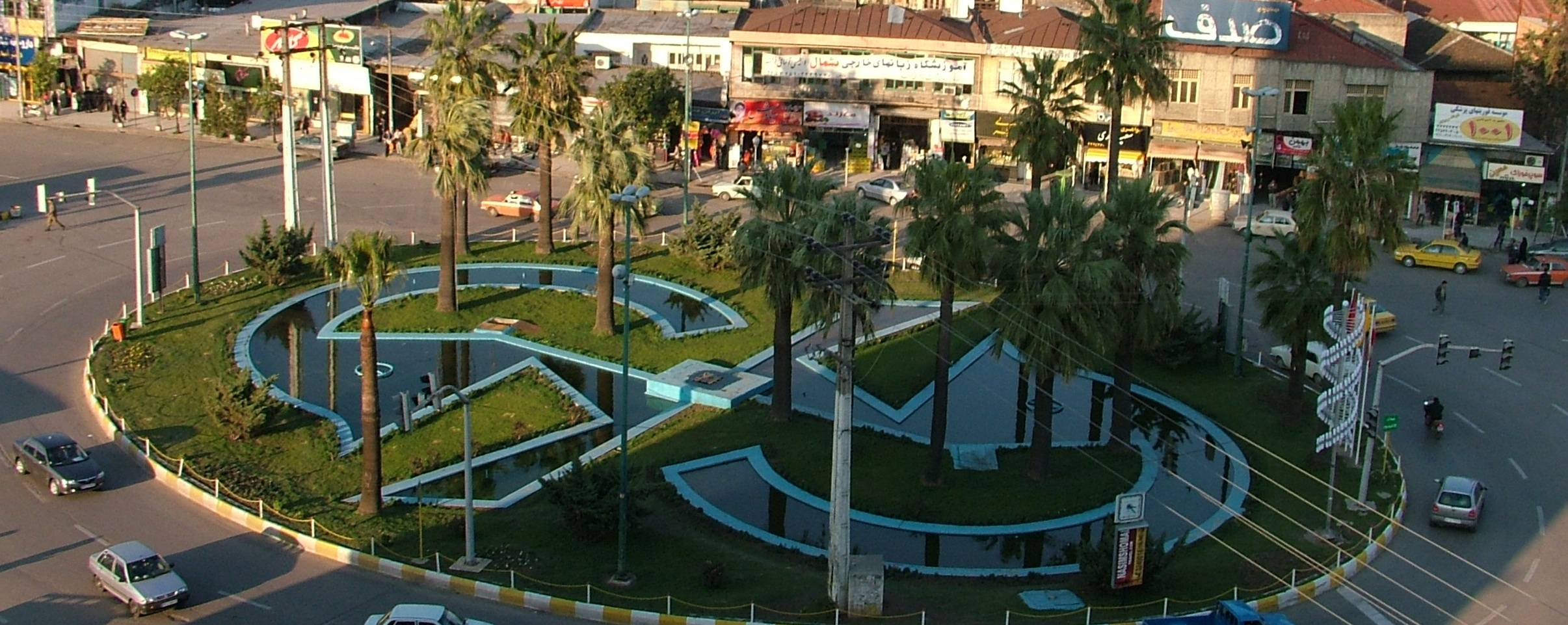 Field 17 shahrivar Amol